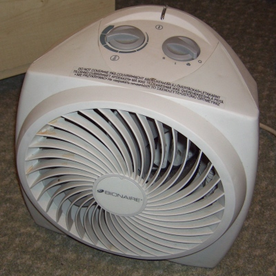 Taken by me in 2006. This is a photo of a fairly typical fan heater, featuring a thermostat and heat level control.